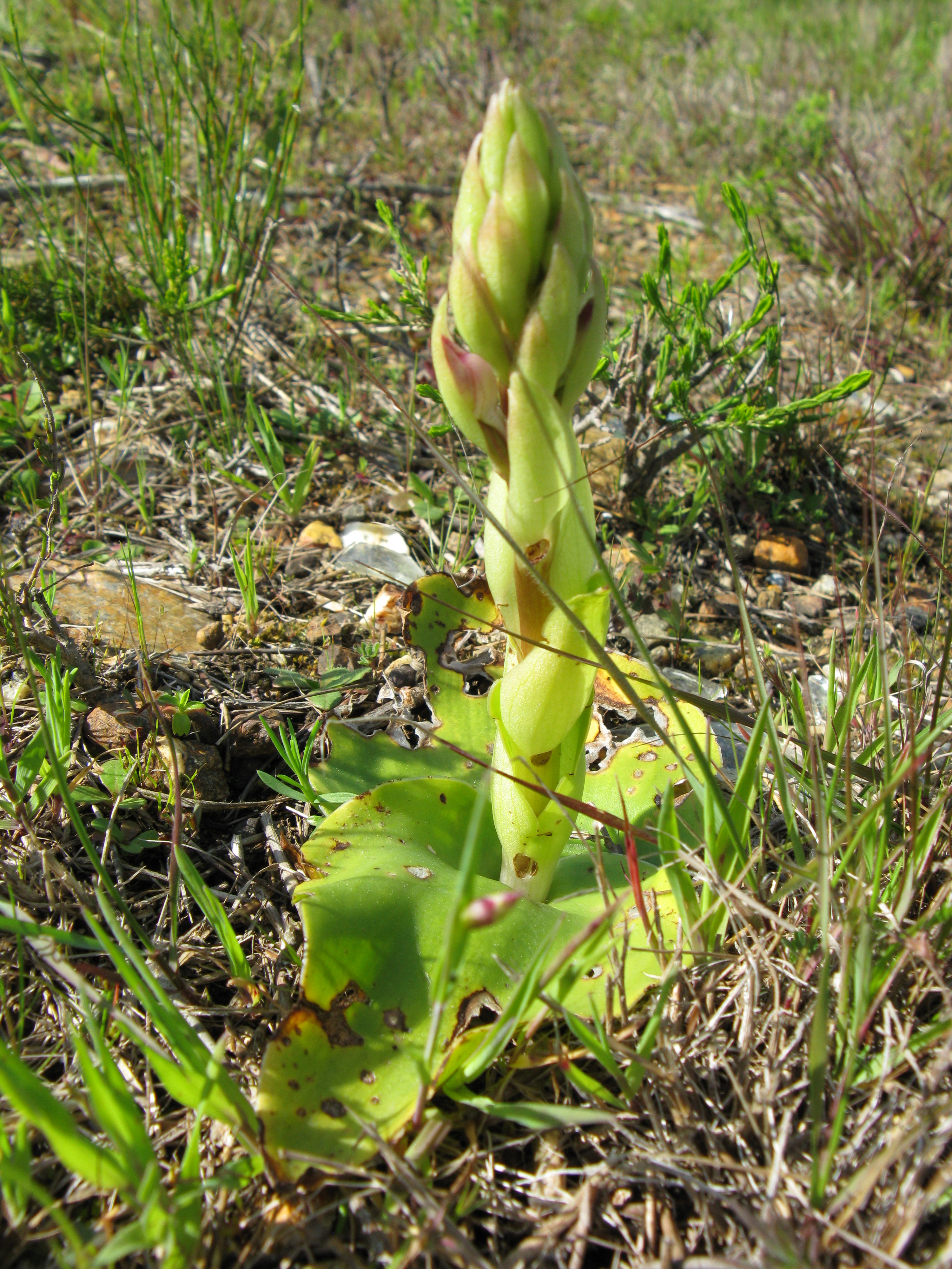 Satyrium is a genus of some 90 species of ground orchids, mainly African. Satyrium erectum is a pink-flowered species with spotted petals. It is endemic to the Western Cape of South Africa. Unofficial Afrikaans common name = Pienktrewwa